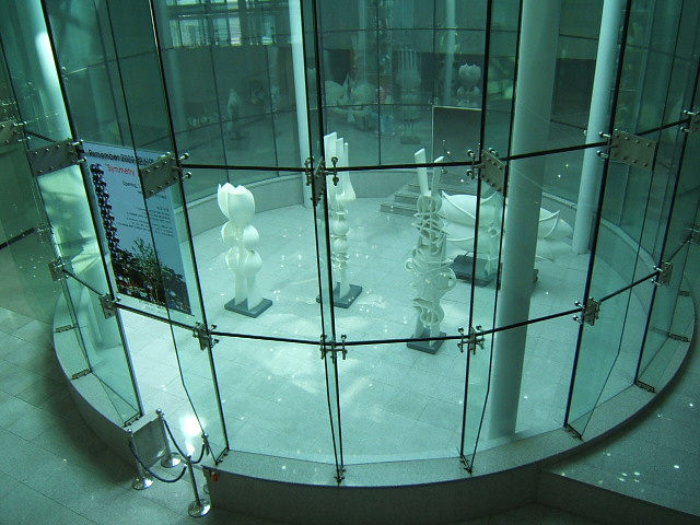 Galaxy Gallery of Moonshin Museum at Sookmyung Women's University